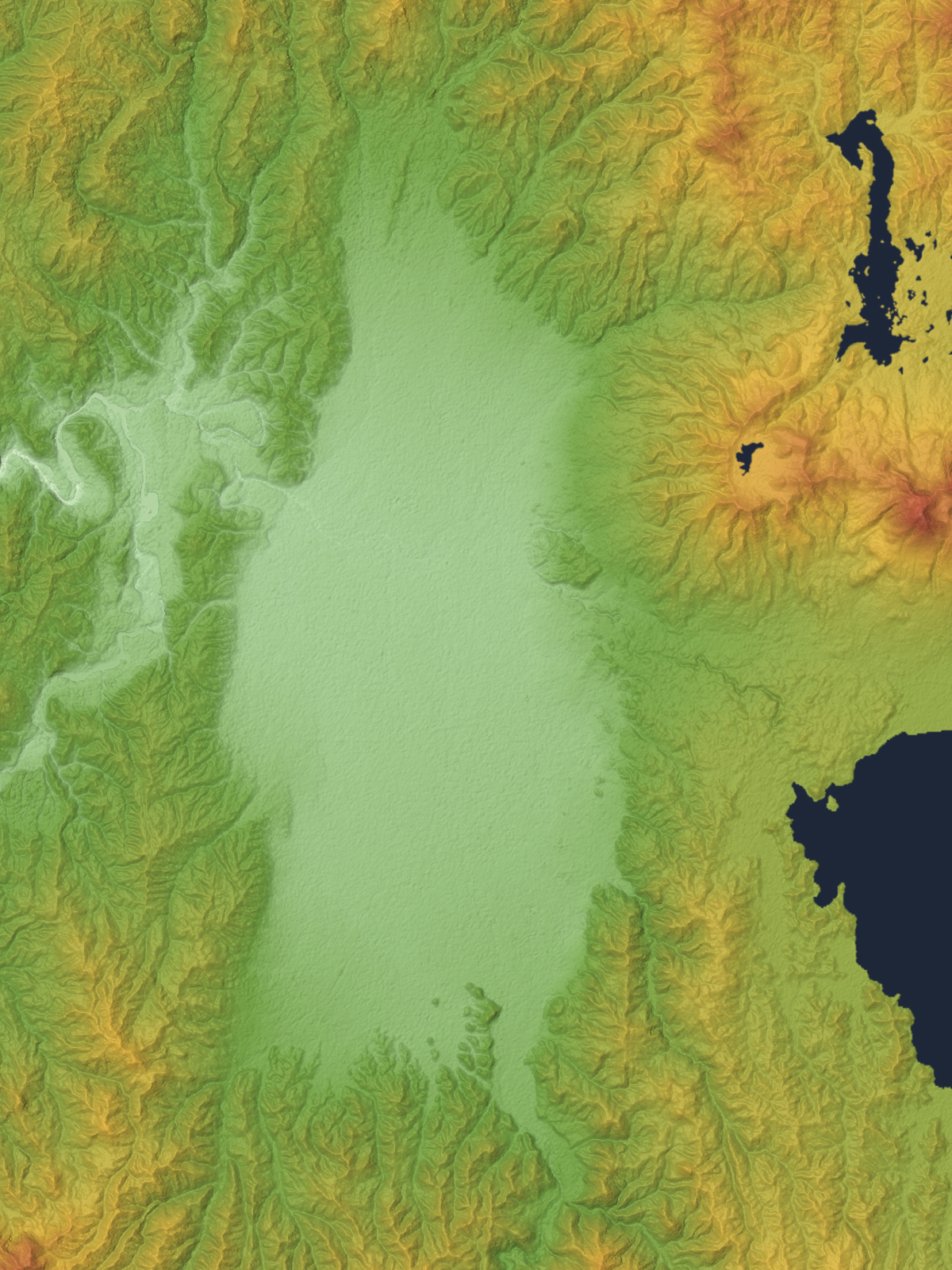 Aizu Basin in Fukushima Prefecture, Honshu, Japan.